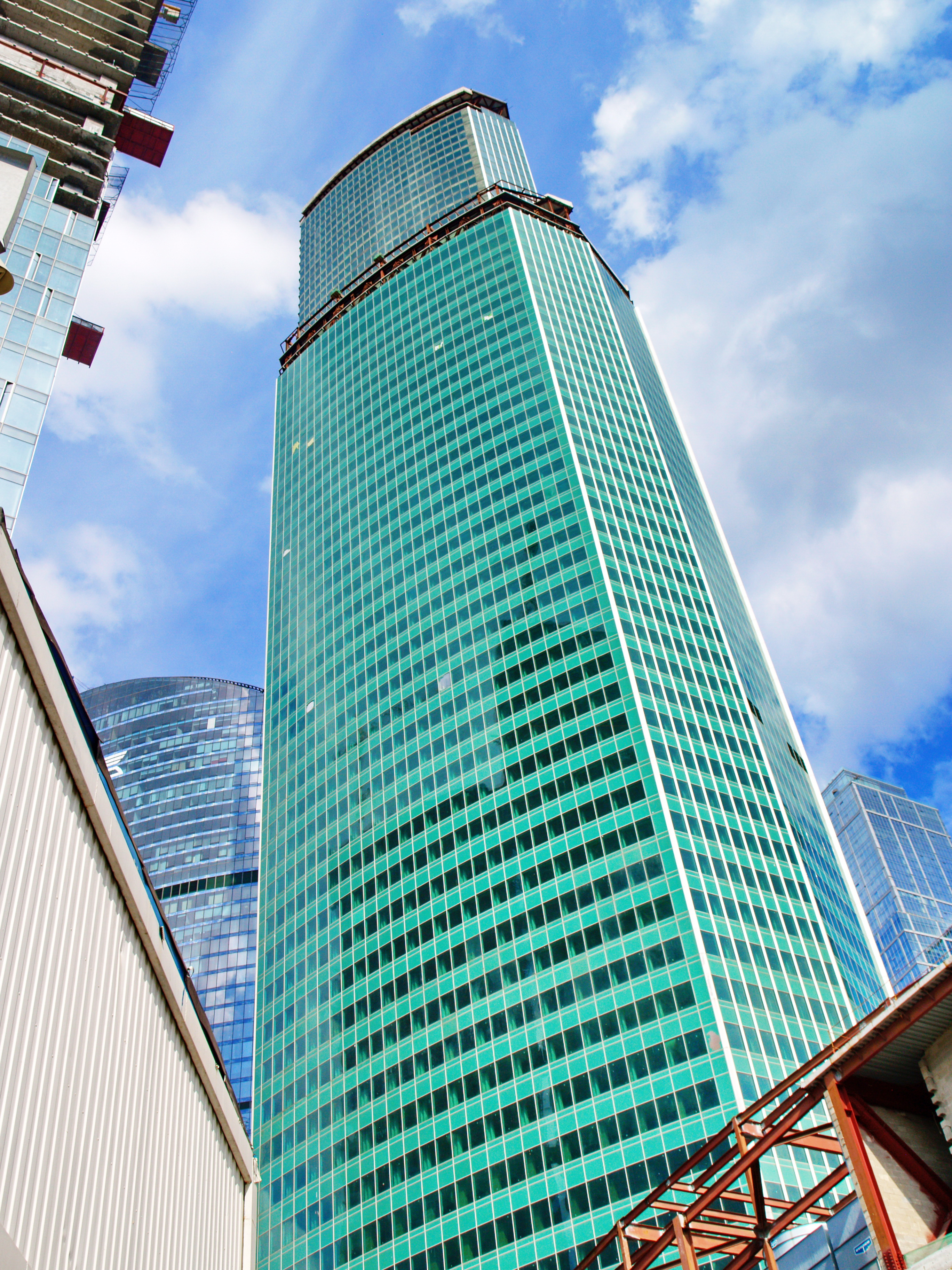 Eurasia, Moscow, Russia